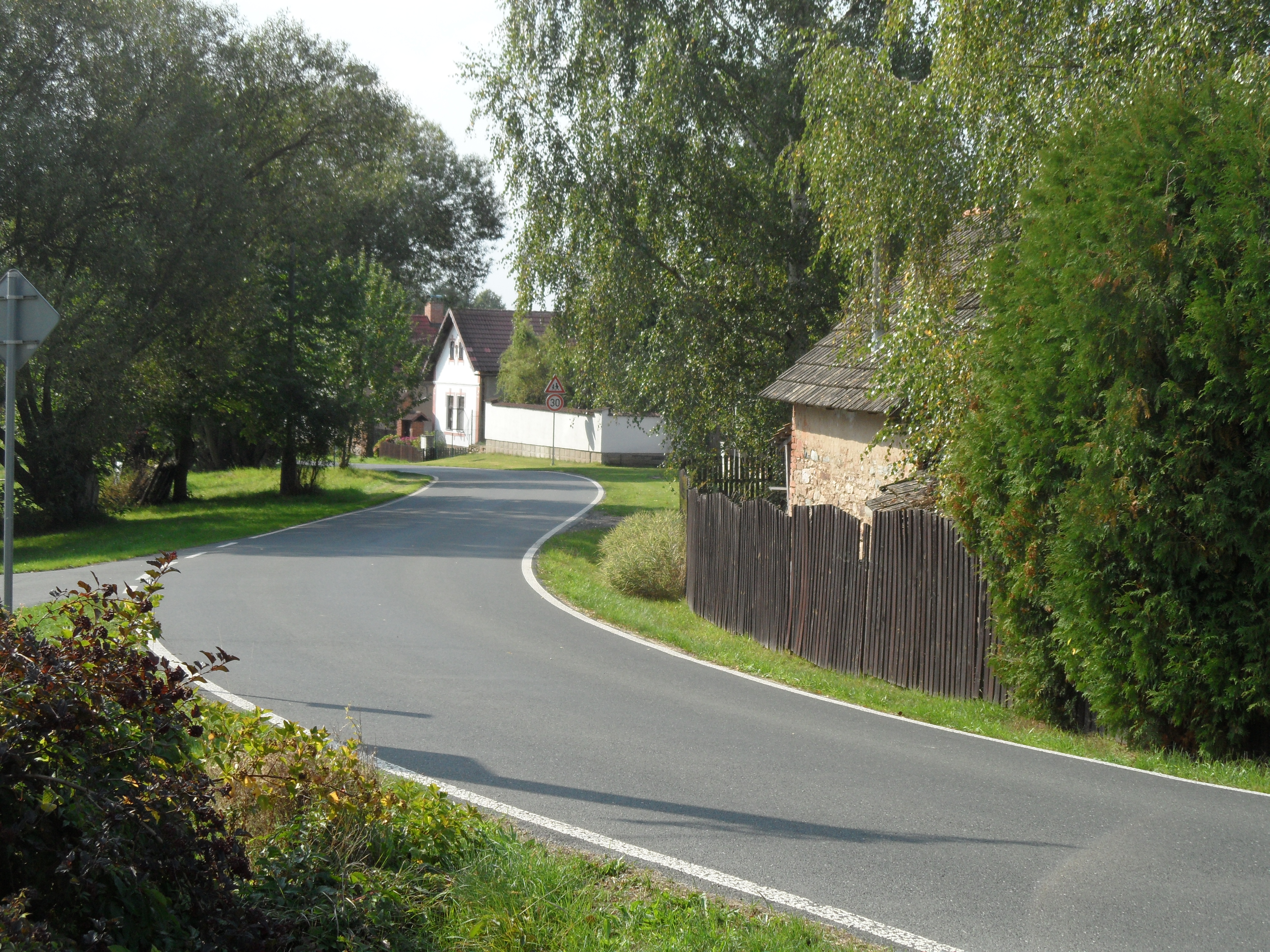 Lipina (Zbraslavice) A. Houses along Double Bend, Kutná Hora District, the Czech Republic.